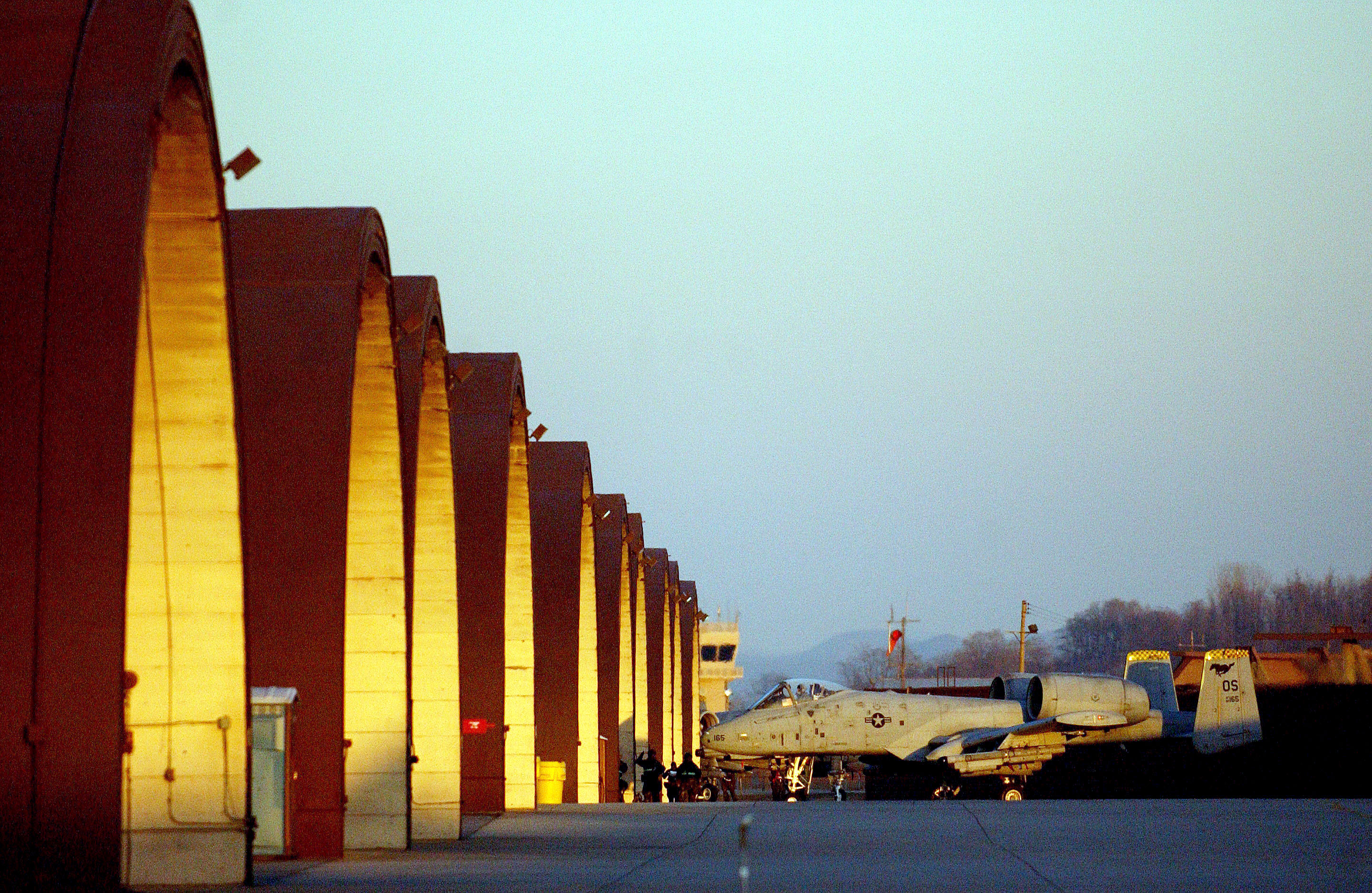 Osan Air Base, South Korea (AFPN) -- An A-10 Thunderbolt II returns after flying a training mission supporting exercise Beverly Bulldog 06-01 here Jan. 24. Exercise scenarios test the base's ability to protect its operations from missile attacks or enemy forces